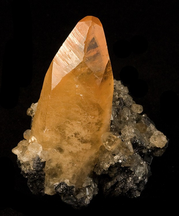 Calcite, Galena Locality: Sweetwater Mine (Milliken Mine; Frank R. Milliken; Blair Creek; Ozark Lead Company Mine; Adair Creek; Logan Creek), Ellington, Viburnum Trend District, Reynolds County, Missouri, USA (Locality at ) Size: 7.2 x 6.2 x 5.5 cm. A beautiful, gemmy and lustrous, 6.8 cm, golden-amber calcite crystal aesthetically set in mounded galena matrix covered with small calcite crystals from the Sweetwater Mine of Missouri. The termination is extremely gemmy on this striking, very colorful calcite. Ex. George Feist Collection.